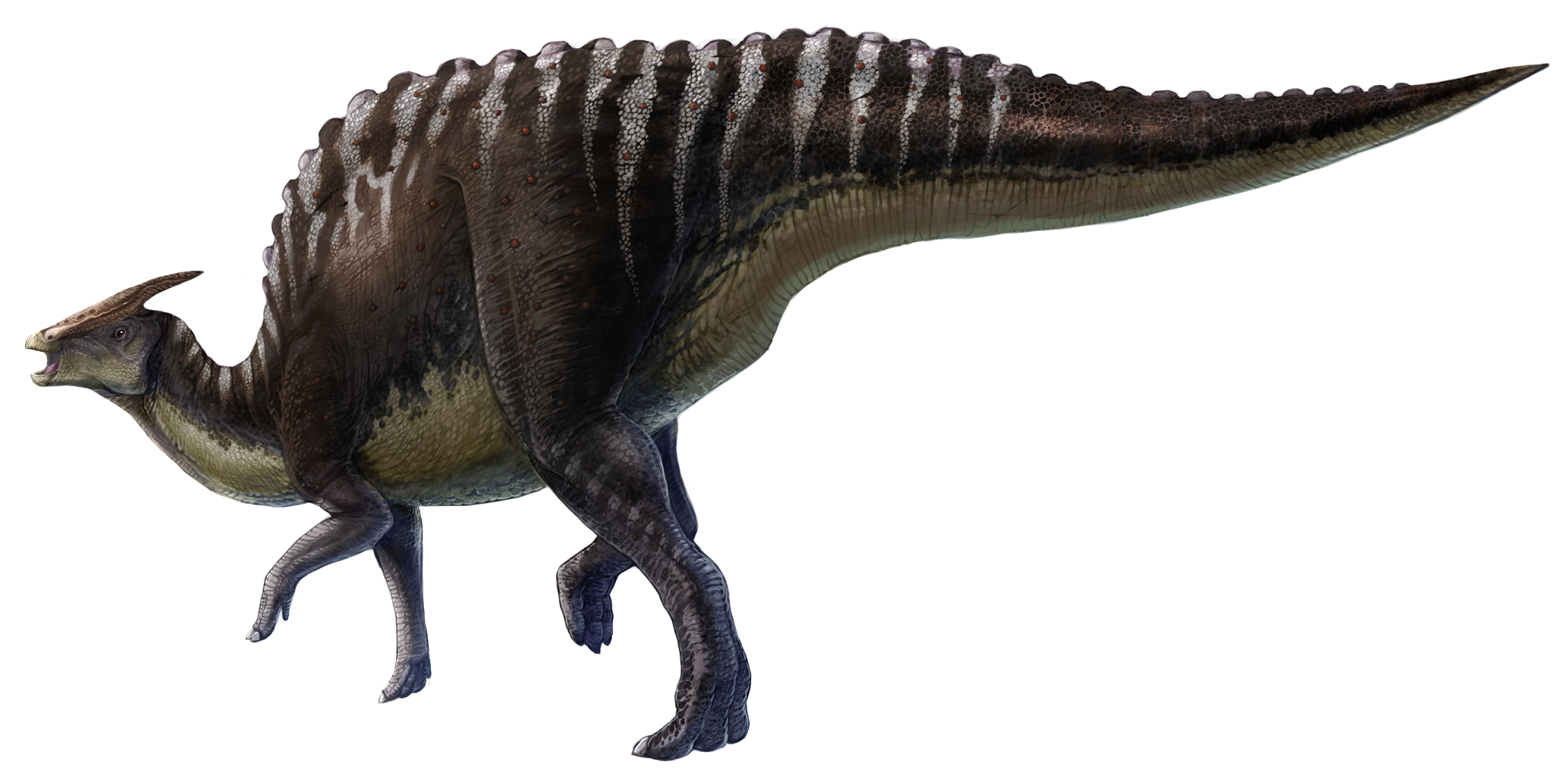 Soft tissue reconstructions of Saurolophus based on preserved skin impressions. Saurolophus angustirostris showing midline feature-scales and banded pattern on the tail. Variations in scale arrangement and patterning are used here as a basis for possible colour patterns, which are particularly evident in the caudal region.